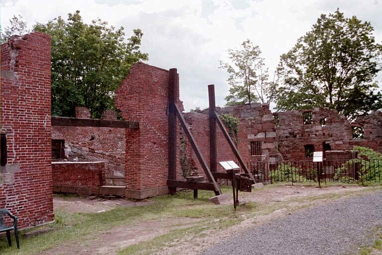 Old Newgate Prison, Connecticut. by paul Gagnon 2003